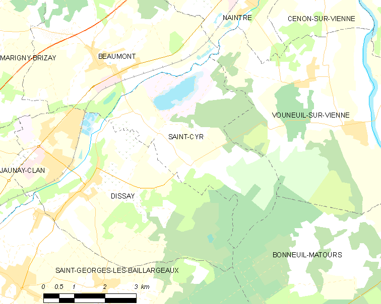 Map of French municipality Saint-Cyr